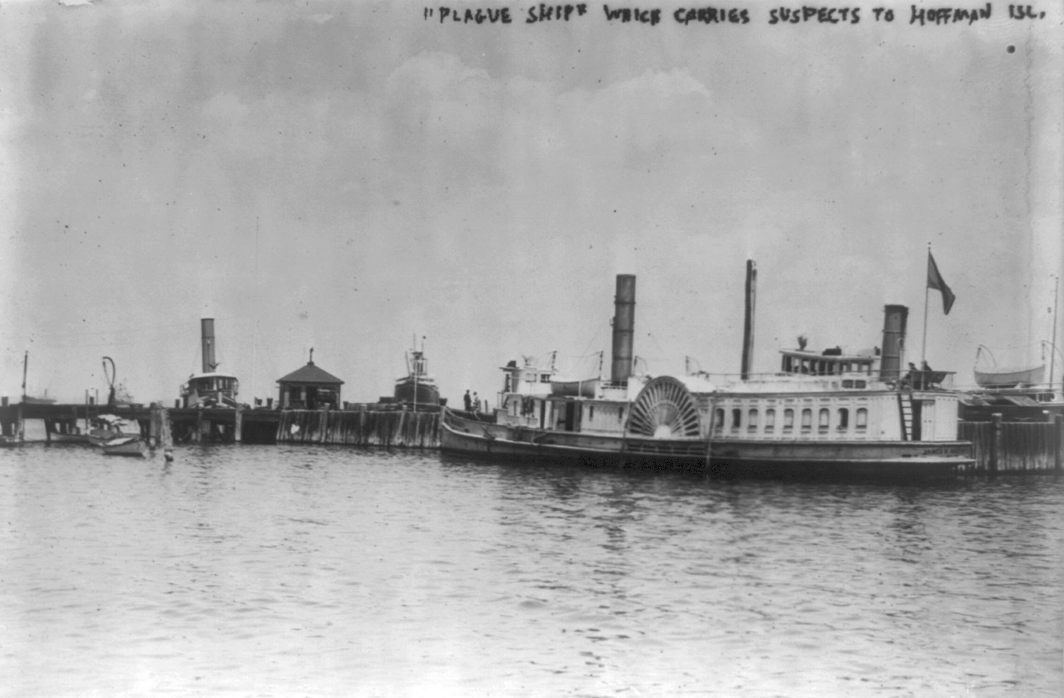 Title: "Plague ship" which carries suspects to Hoffman Island quarantine, N.Y.C. Abstract/medium: 1 photographic print.